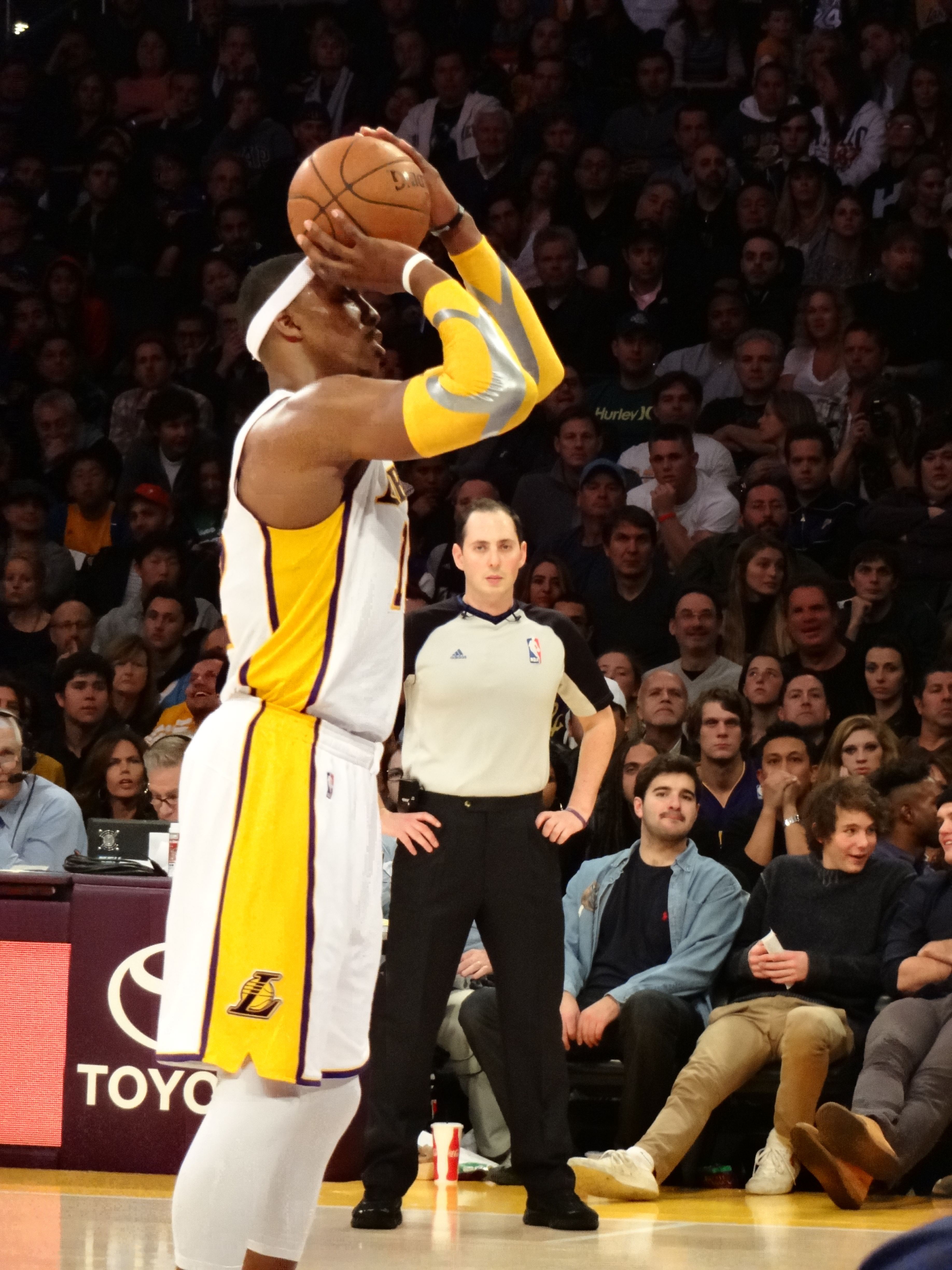 Los Angeles Lakers vs Denver Nuggets at the Staples Center. Dwight Howard takes a free throw.